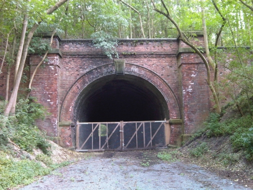 Weedley Tunnel, Low Hunsley, East Riding of Yorkshire, England.